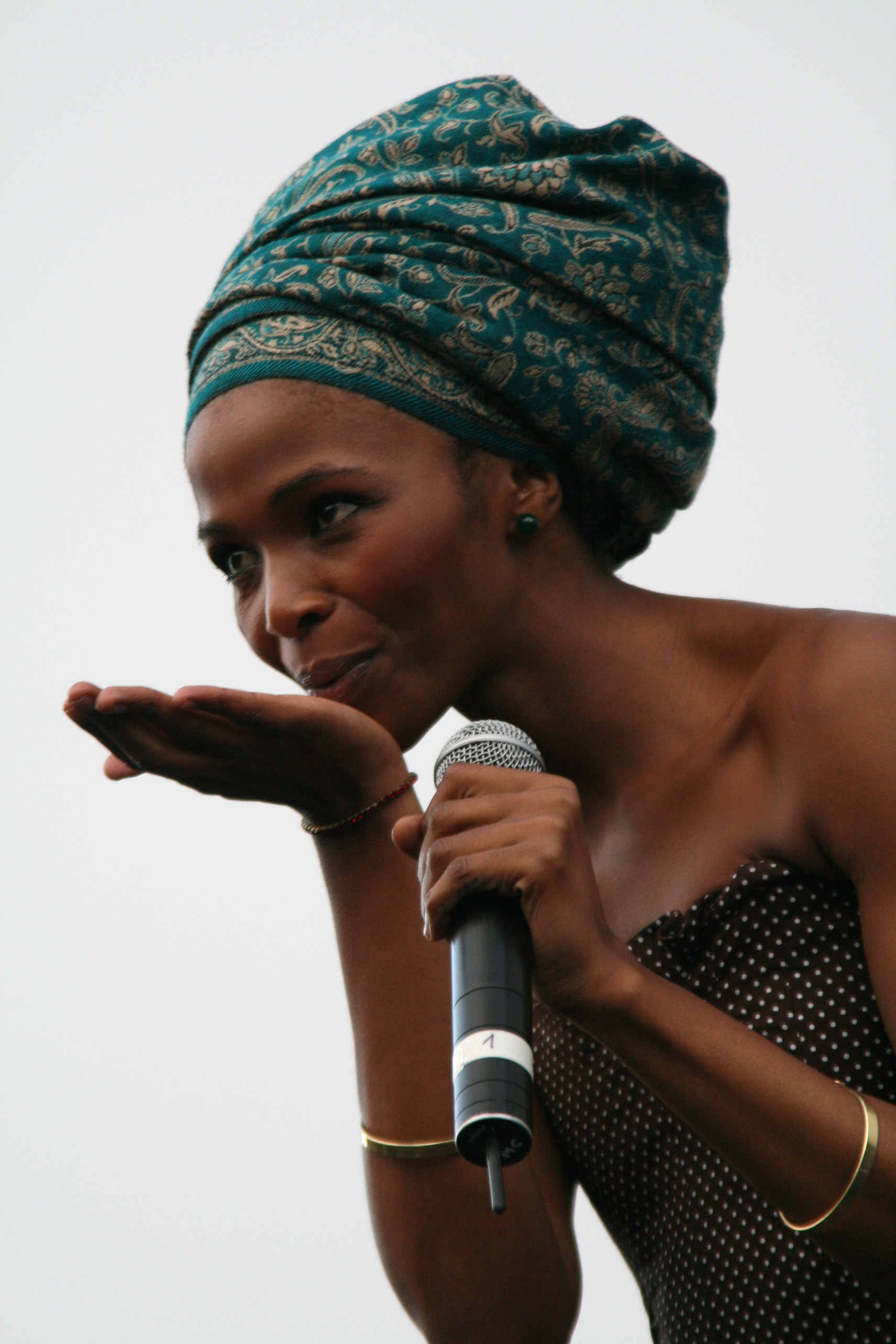 South African singer Simphiwe Dana at the Jazz-Festival in Vienna